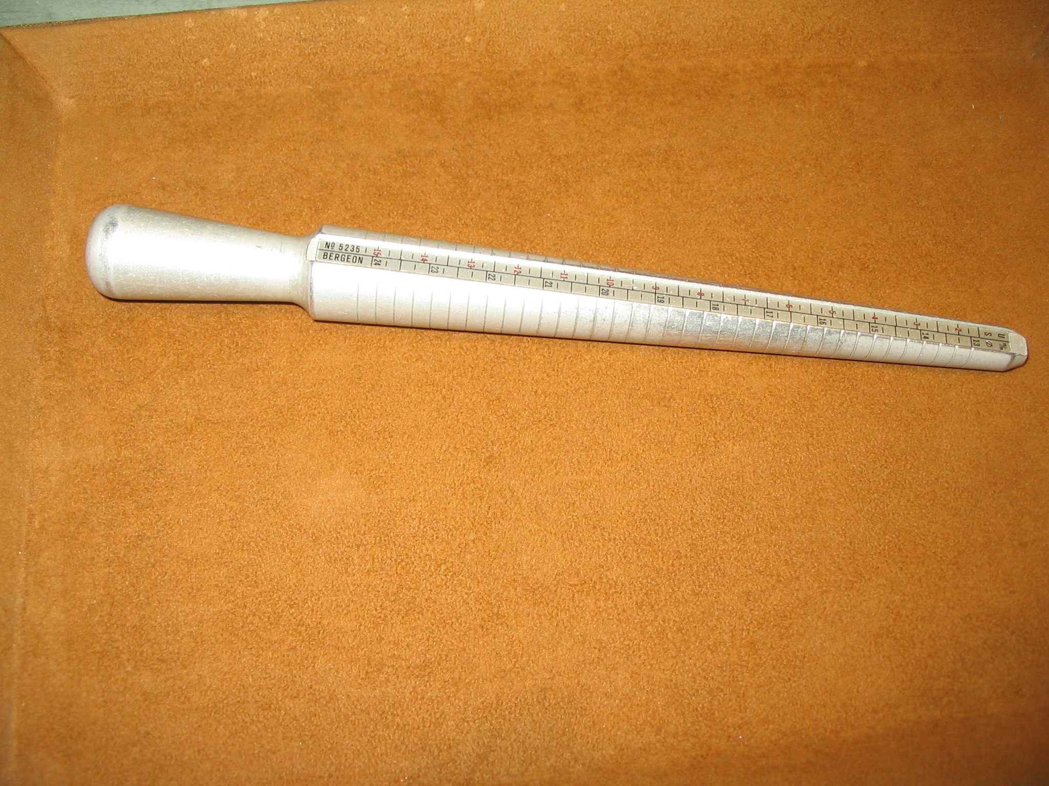 Ring sizer stick (Bergeon N°5235, Swiss made, US+diameter scale)